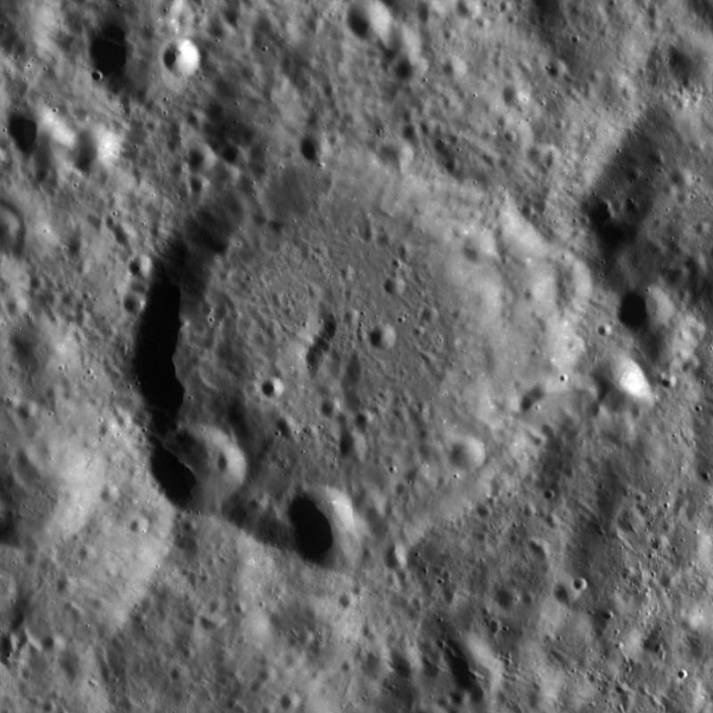 Appleton crater, on the far side of the moon. LRO Wide Angle Camera mosaic.